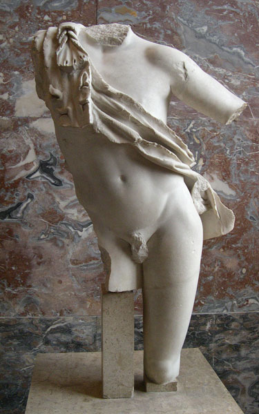 Torso of the type of the Leaning satyr. Marble, Roman copy from the reign of Domitian (81–96 AD) after a Greek original from the 4th century BC. From the Imperial Palace at the Palatine Hill, in Rome.